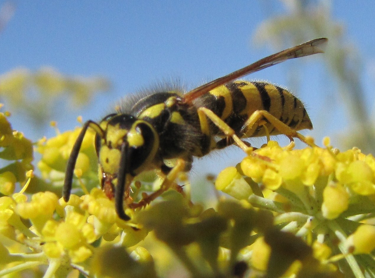 Western yellowjacket (Vespula pensylvanica) on a fennel flower (Foeniculum vulgare) Location: near Robber's Peak, Orange, CA, USA Identification: "This is the only species which has a complete yellow eye ring around each compound eye." From: Also based on images from this site